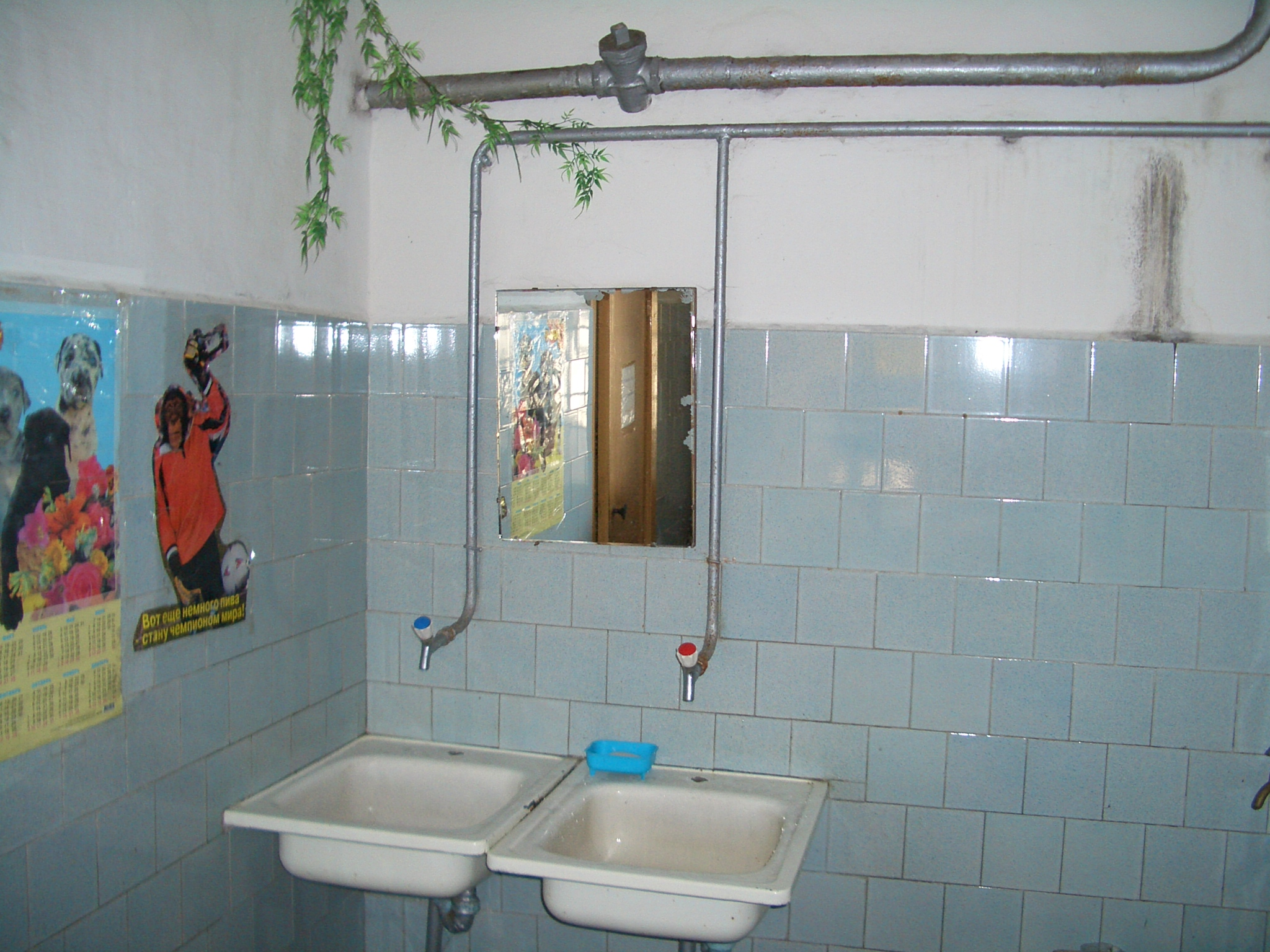 From the caption under this photo at semantics: "Color-coding hot- and cold-water faucets is common in many cultures but, as this example shows, the coding may be rendered meaningless because of context. The two faucets were probably sold as a coded set, but the code is unusable (and ignored) as there is a single water supply".